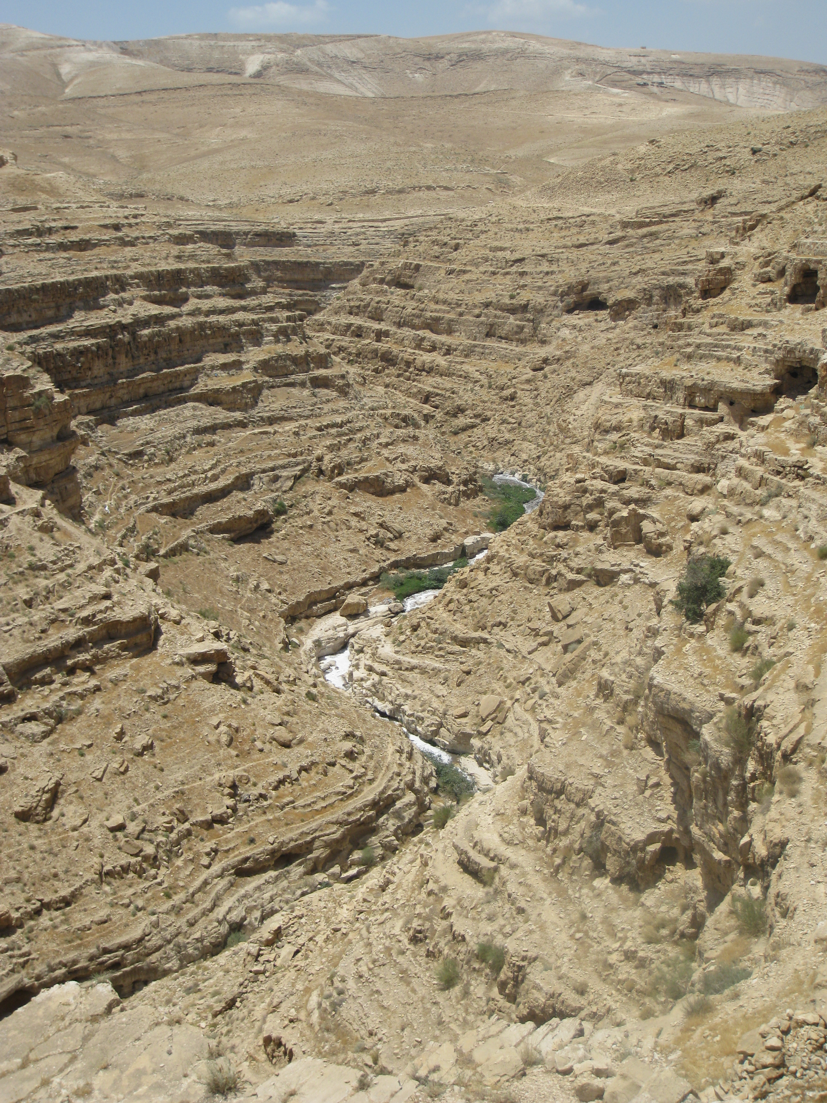 Kidron Valley, near Mar Saba Monestary